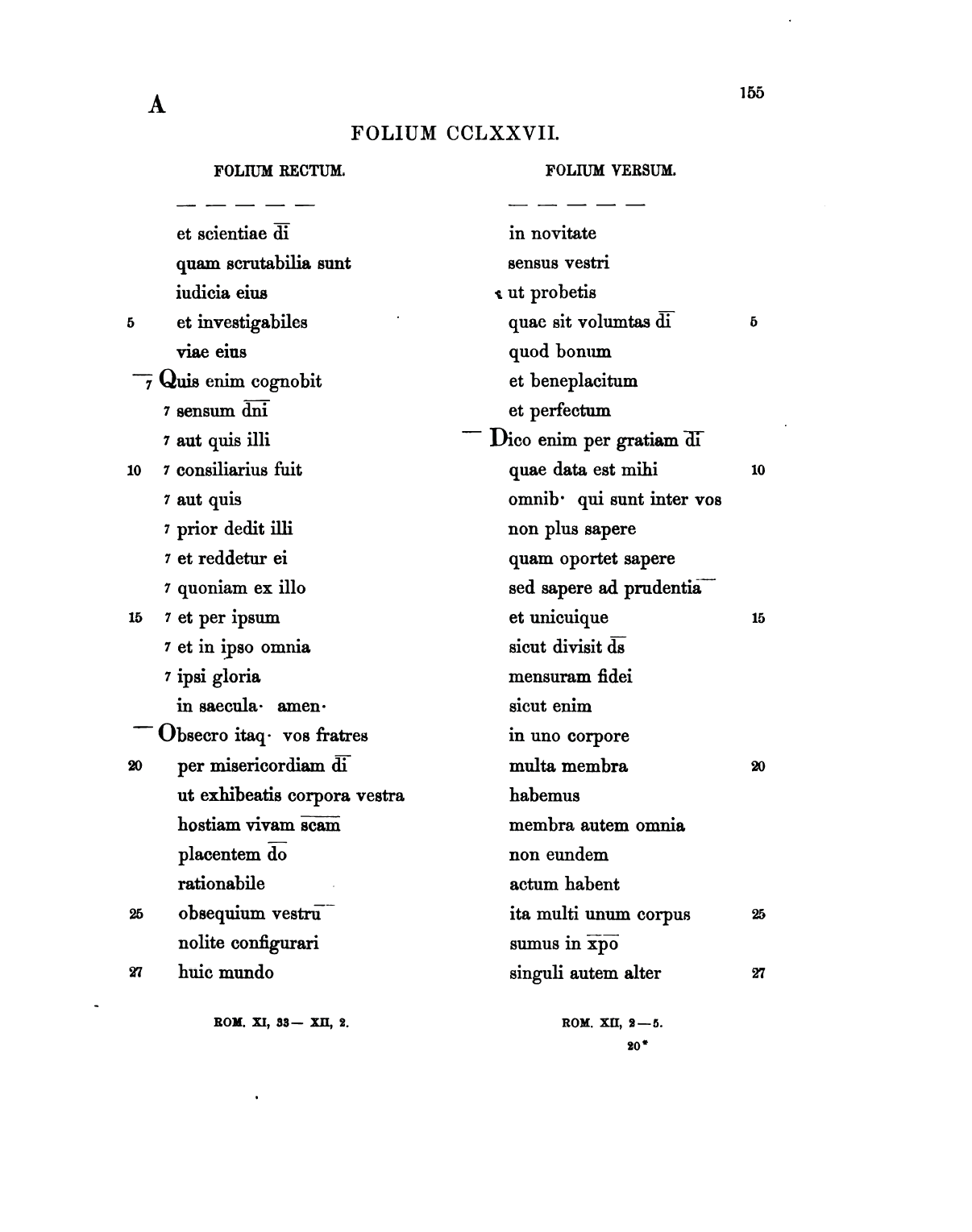 Tischendrof's facsimile edition of the codex ("Monumenta sacra et profana" Lipsiae 1855)